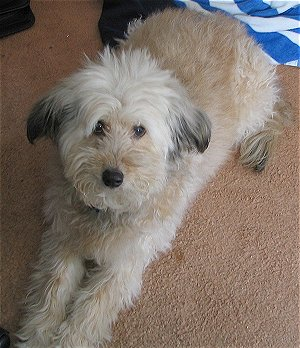 Wheaten - Poodle hybrid, a Whoodle